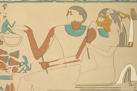 The ancient Egyptian local governor Sobeknakht II with his wife, from his tomb at El-Kab. 16th-17th Dynasty, Second Intermediate Period.